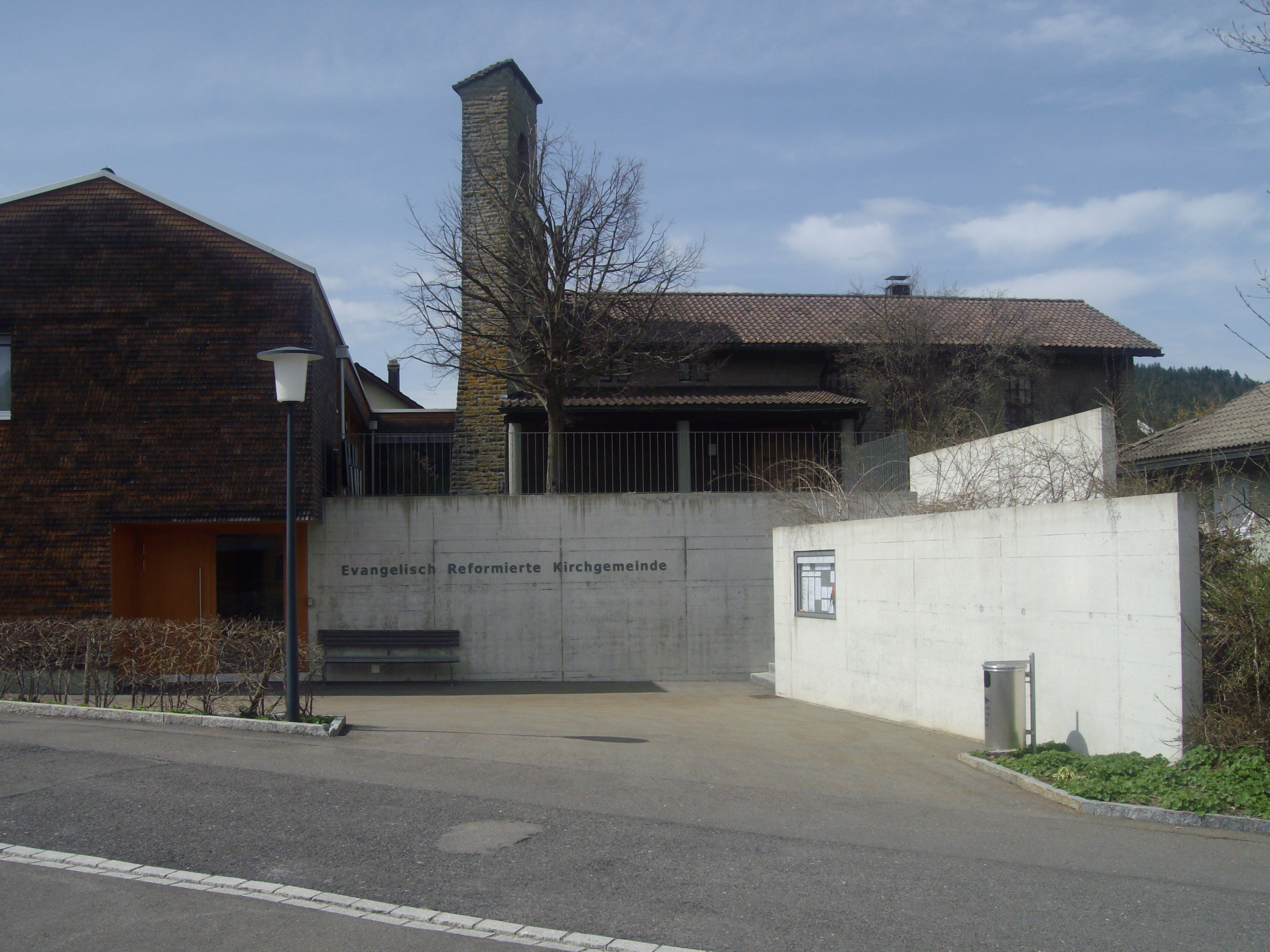 Reformierte Kirche Einsiedeln, Aussenansicht